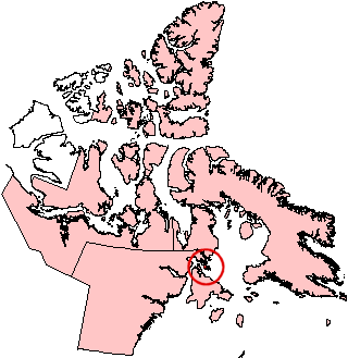 Base image created by Keith Edkins as GFDL, modified by Tim Vasquez.